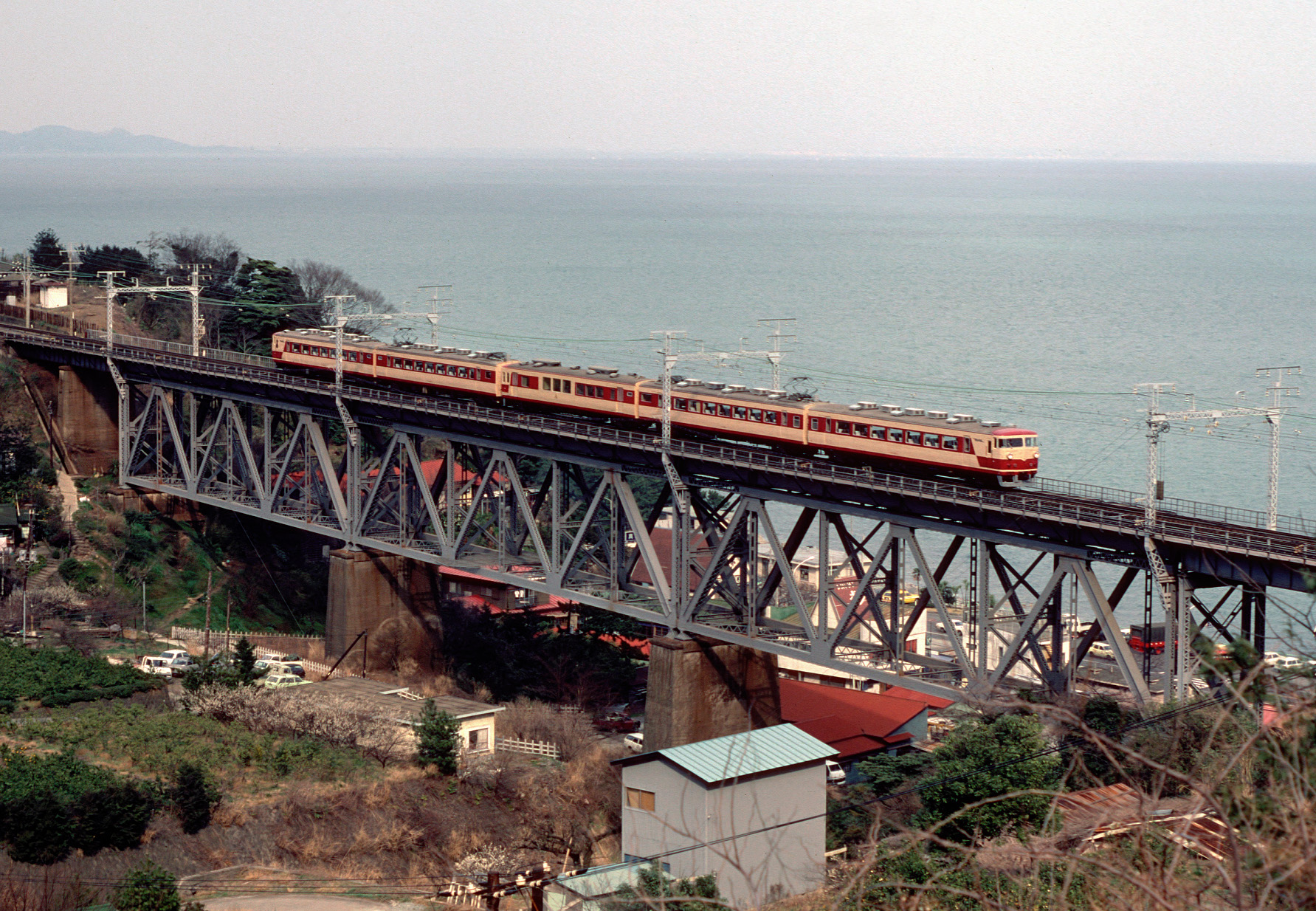 The royal train with Japanese National Railways 157 series EMU running between Nebukawa and Manazuru in Tokaido Main line.